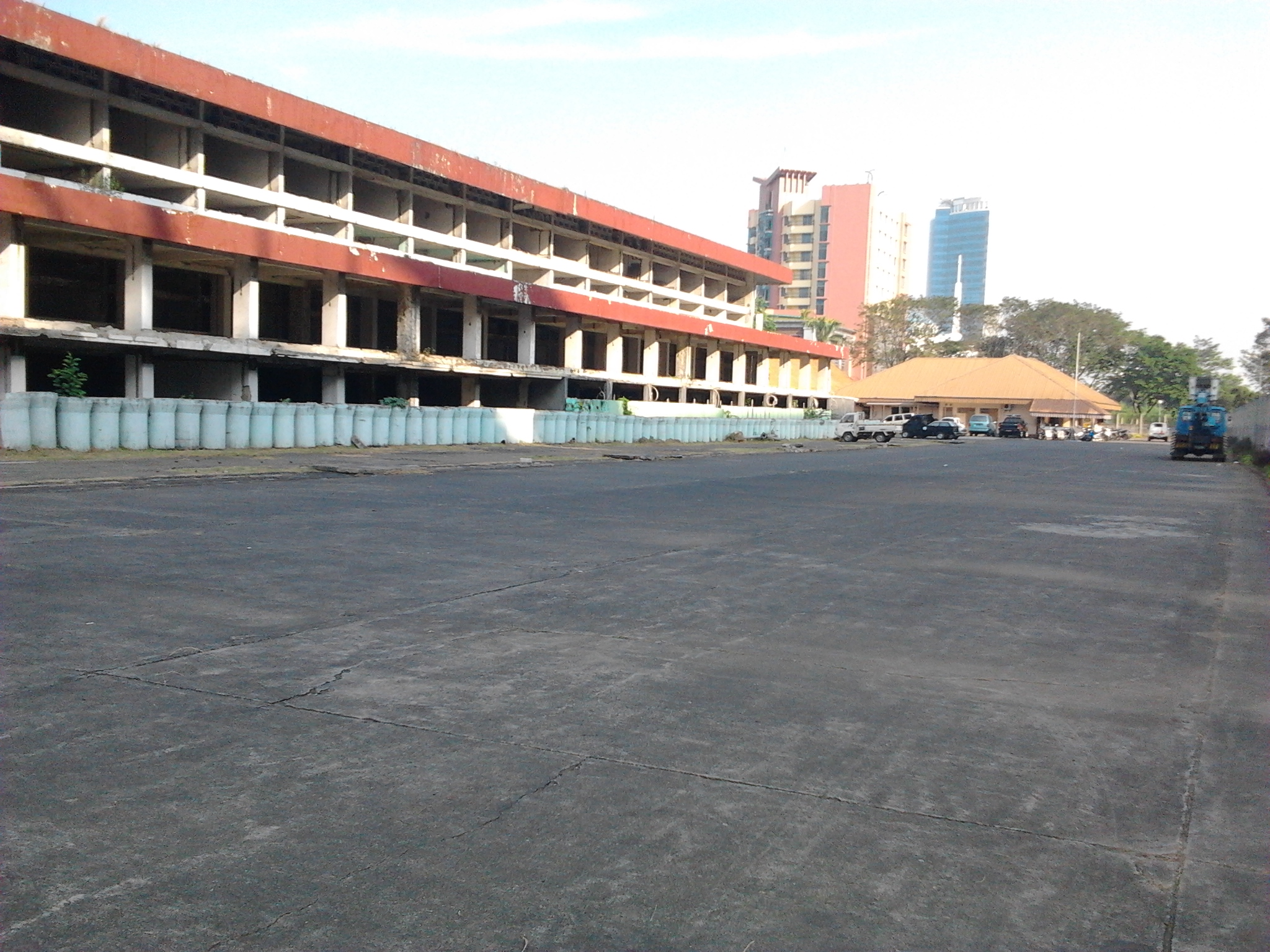 This is the abandoned, ex apron terminal building of Kemayoran Airport, Jakarta nowadays. Tintin Indonesian community and Indonesian Pilot Association planned to save this building and the area.